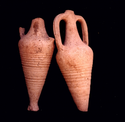 Amfory